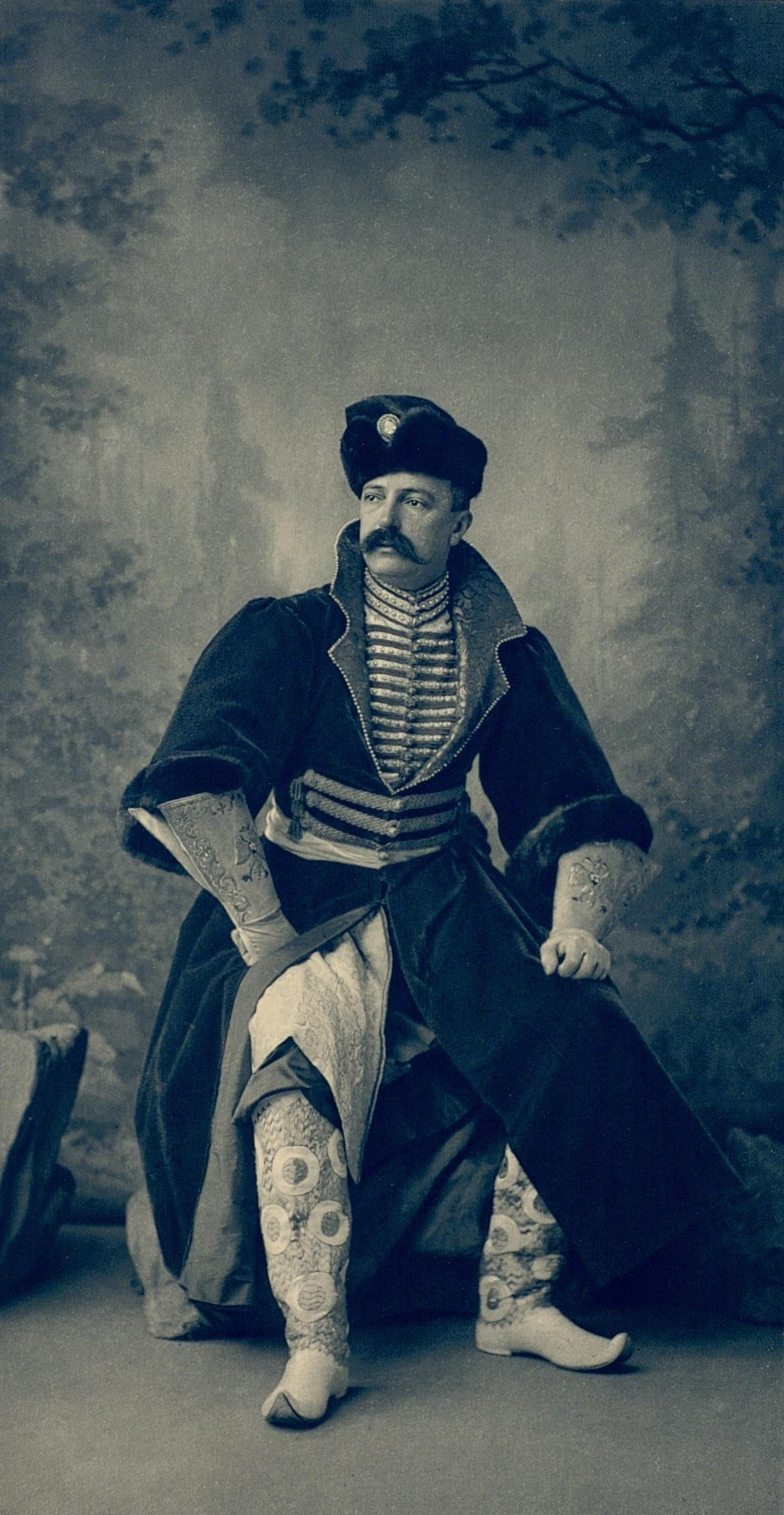 Grand Duke George Mikhailovich of Russia (1863-1919)